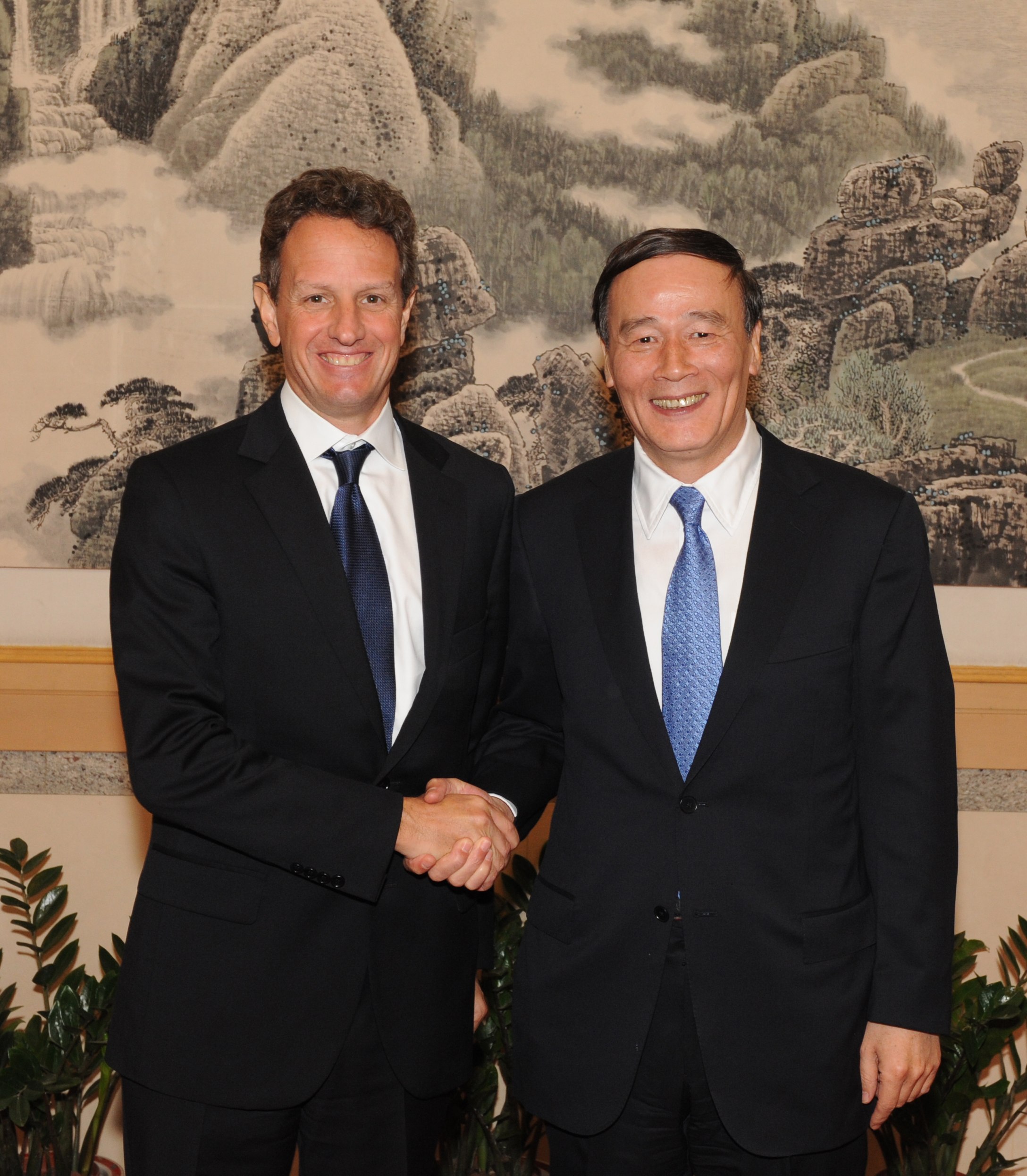 On October 24, 2010, U.S. Treasury Secretary Timothy Geithner, President Barack Obama's special representative, met with Vice Premier Wang Qishan of the State Council and special representative of Chinese President Hu Jintao at the airport in Qingdao, China. The two sides exchanged views on U.S.-China economic relations and the preparation for the Leaders' Summit in Seoul.